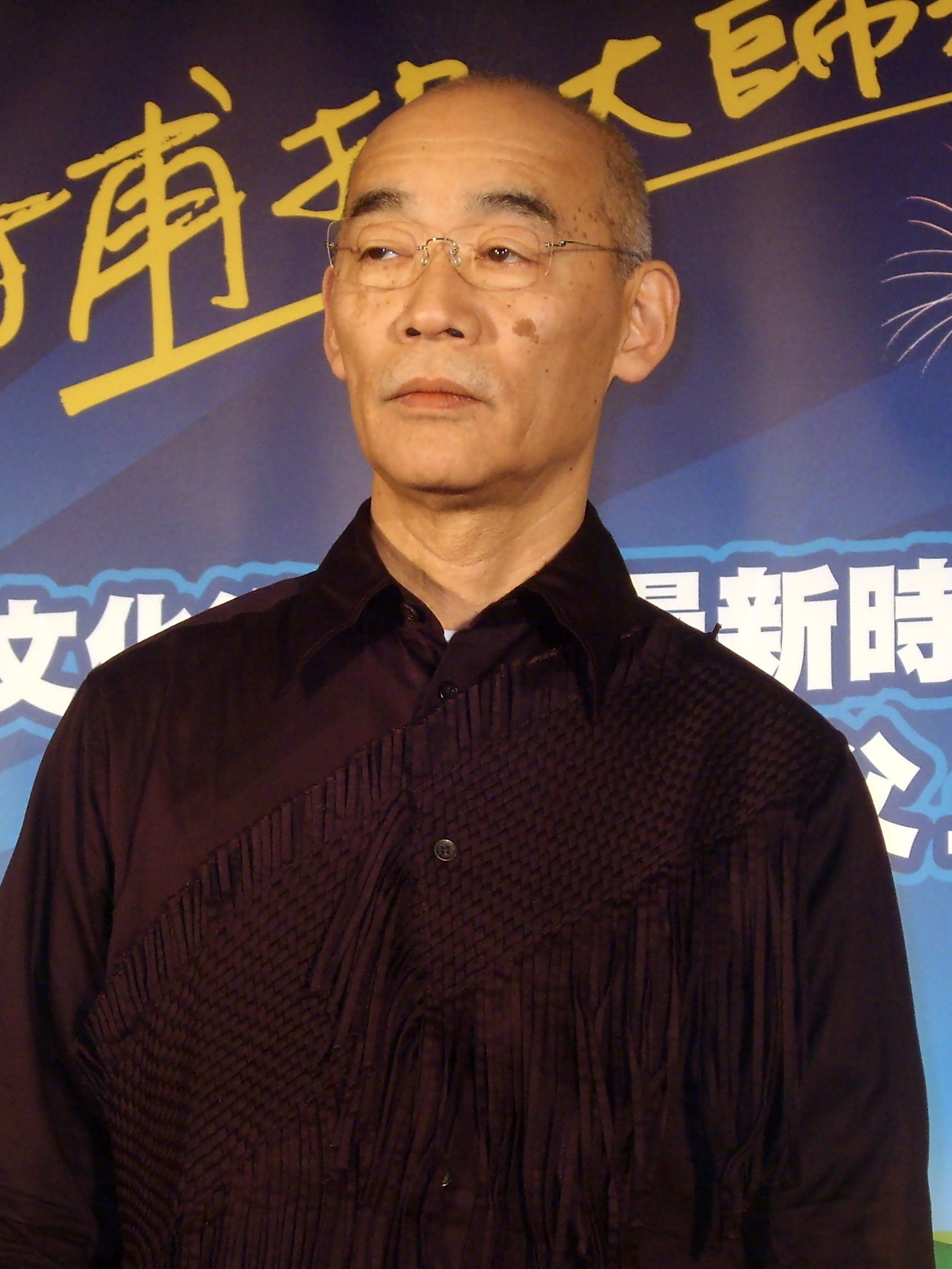 2008 Taipei Game Show - Digital Content Forum: Yoshiyuki Tomino.2008台北國際電玩展數位內容國際研討會：富野由悠季。